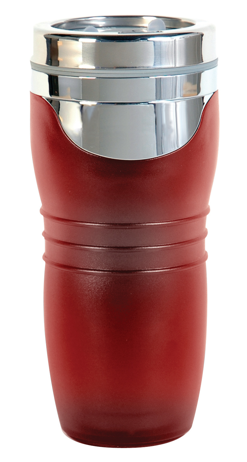 Image of a red travel mug with logo digitally removed making the image suitable for general reference use.